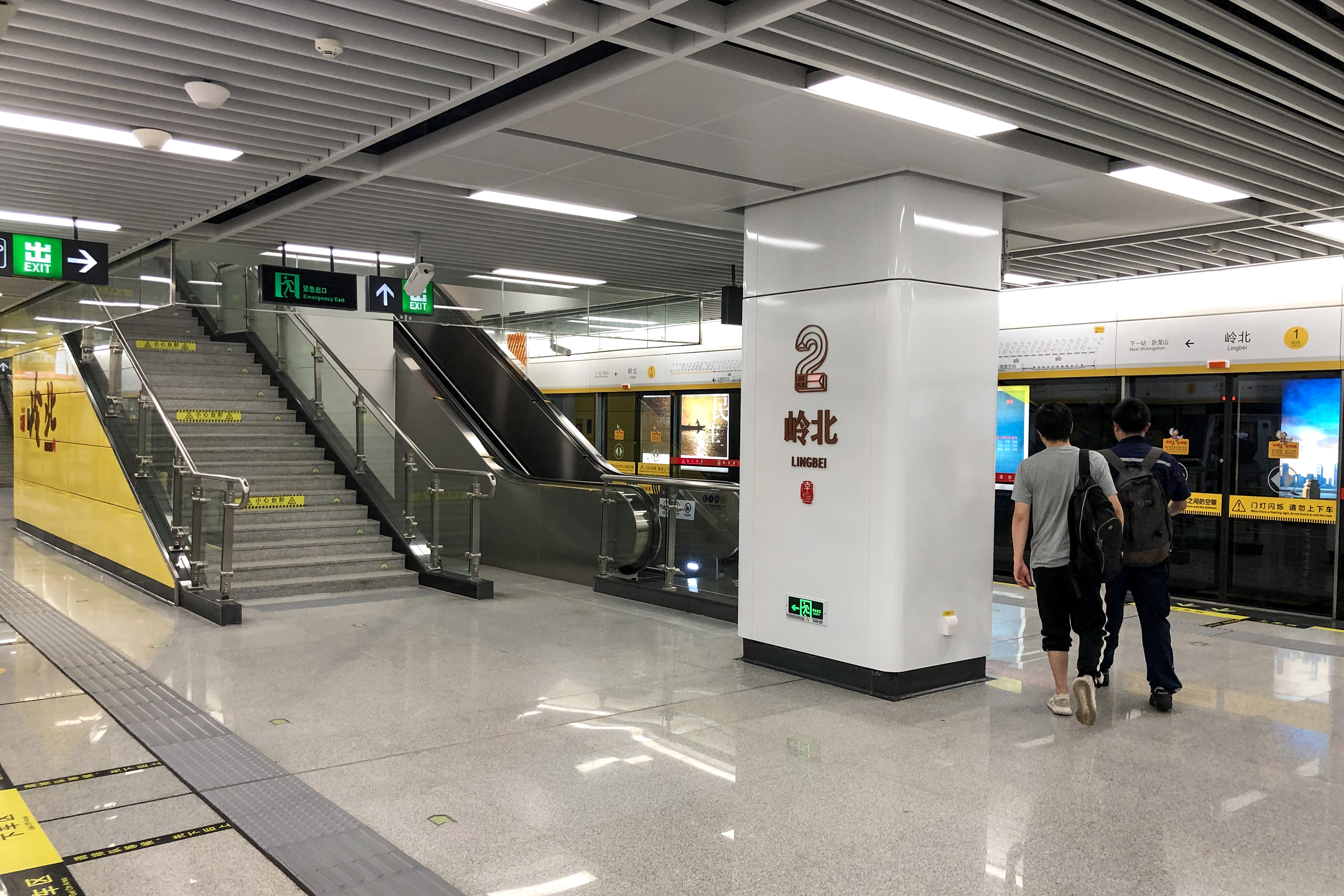 58283, LBX? Nope.